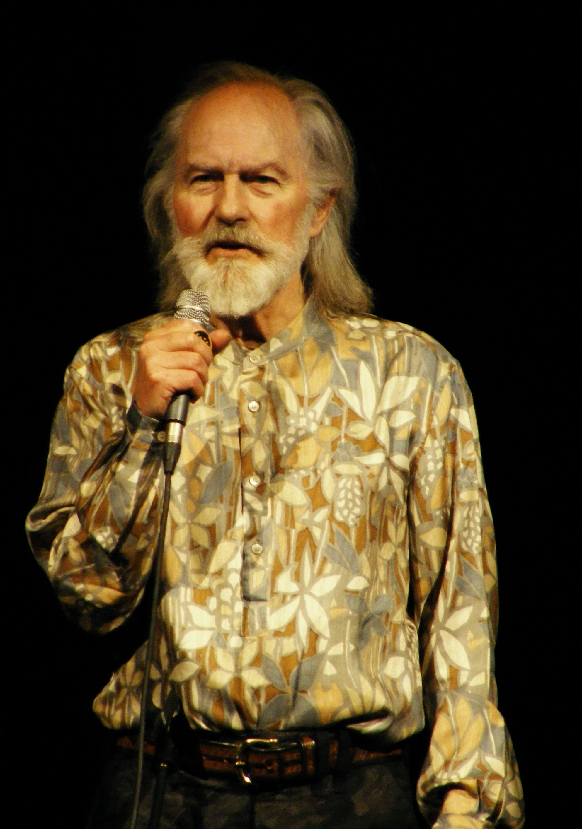 Roy Harper at the Palace Theatre, Manchester, on Saturday the 18th of September 2010 Joanna Newsom at the Palace Theatre, Manchester, on Saturday the 18th of September 2010